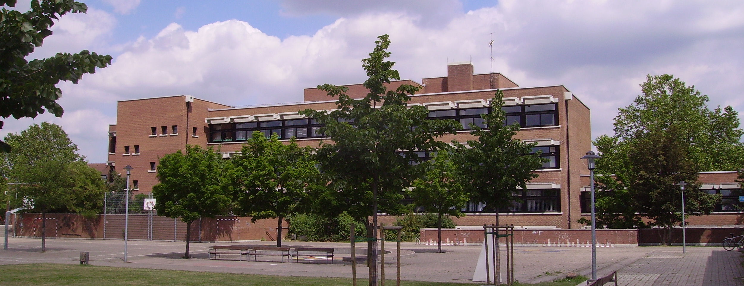 Dossenheim, Germany